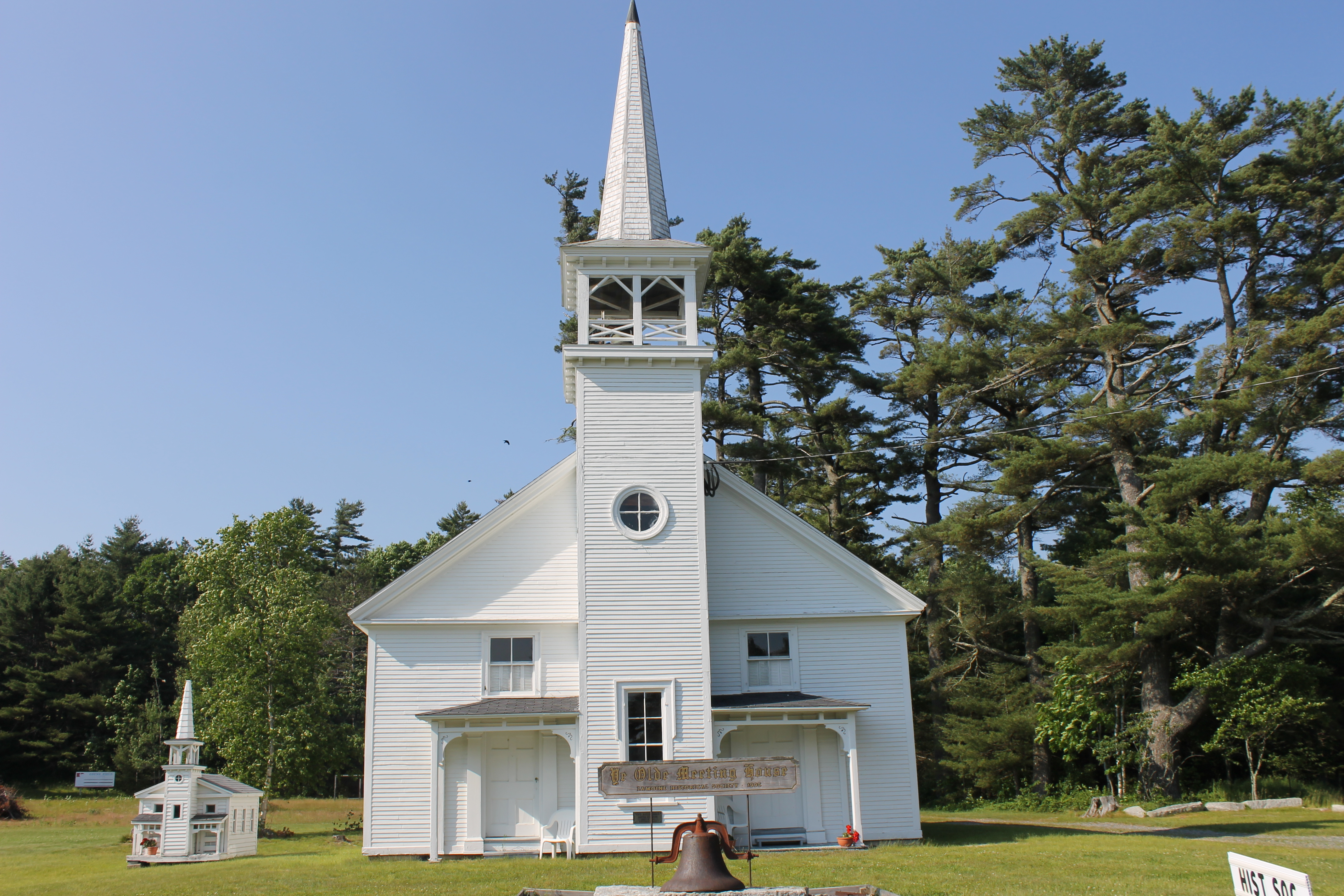 I took photo with Canon camera of Ye Old Meeting House, location of Lamoine Historical Society and also the former First Baptist Church of Lamoine (built 1832).